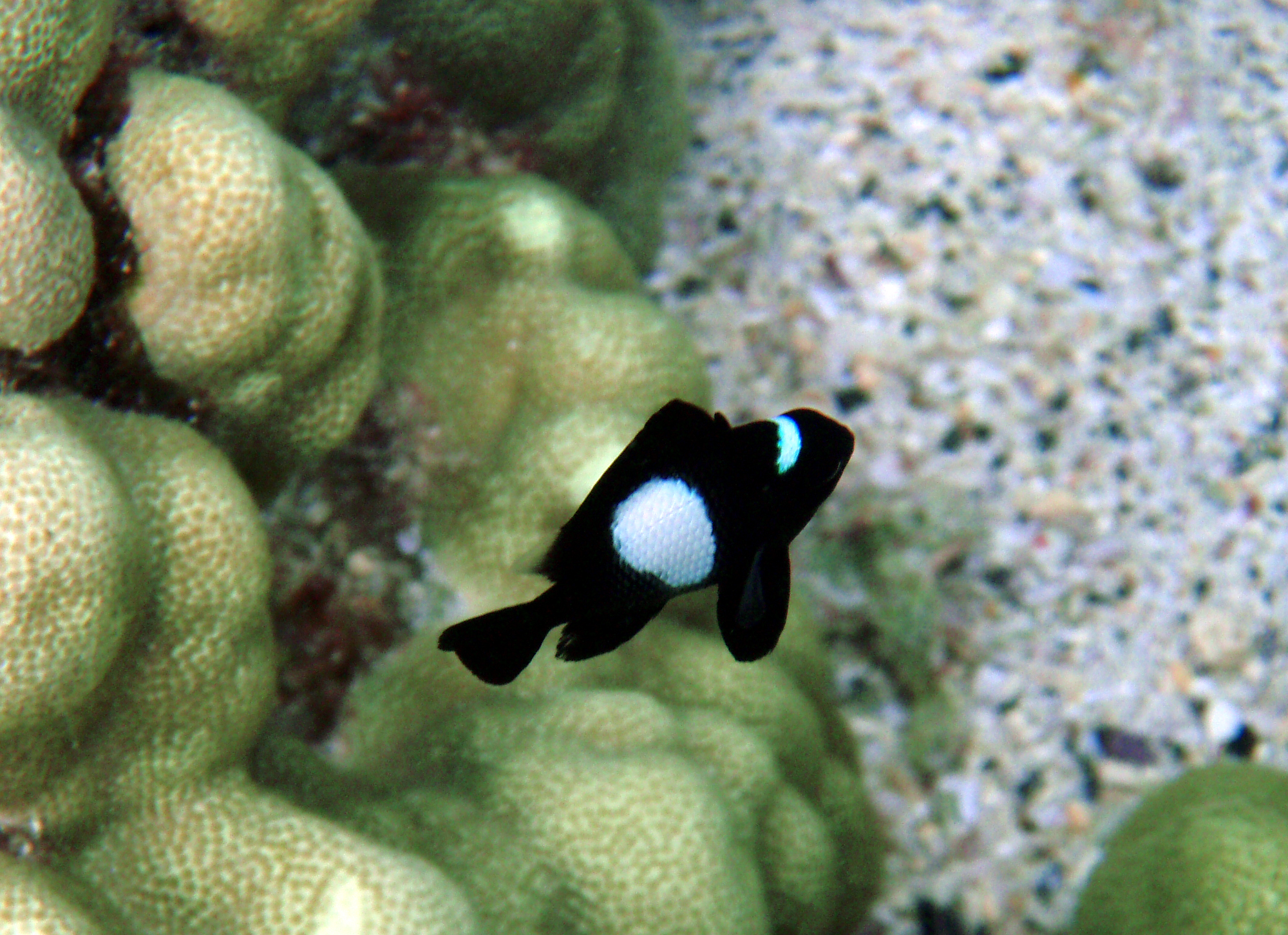 Dascyllus albisella juvenile swimms at Kona, Hawaii